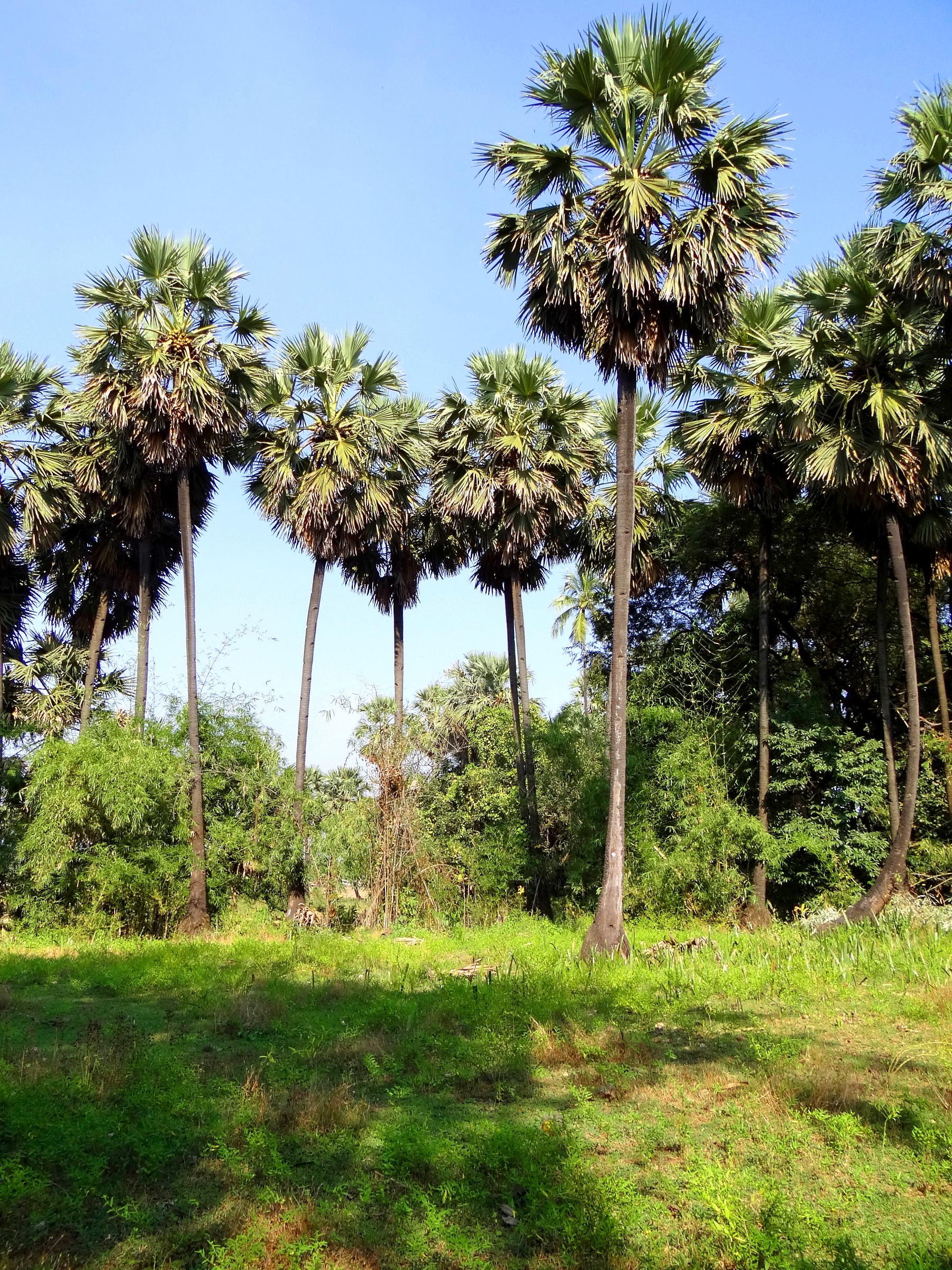 Borassus flabellifer or Sugar palm as seen at Vasai, India.